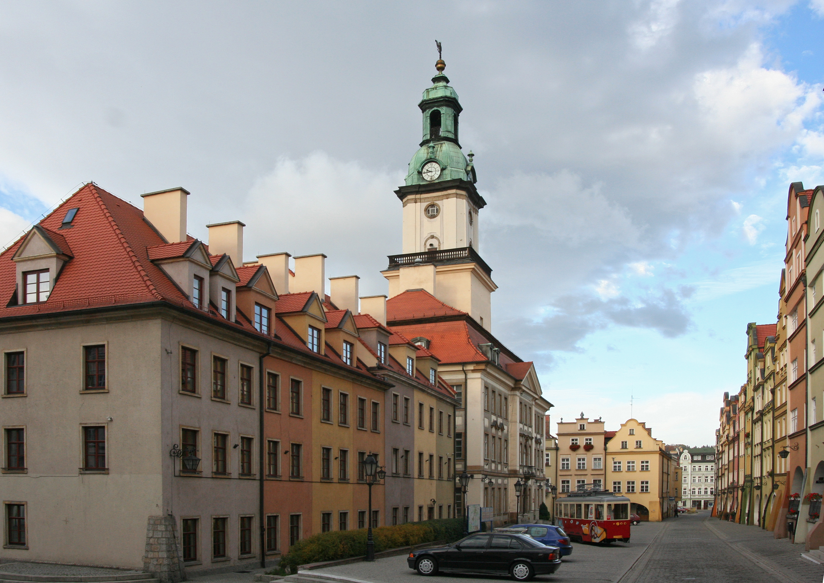 City hall in Jelenia Gora, Poland.